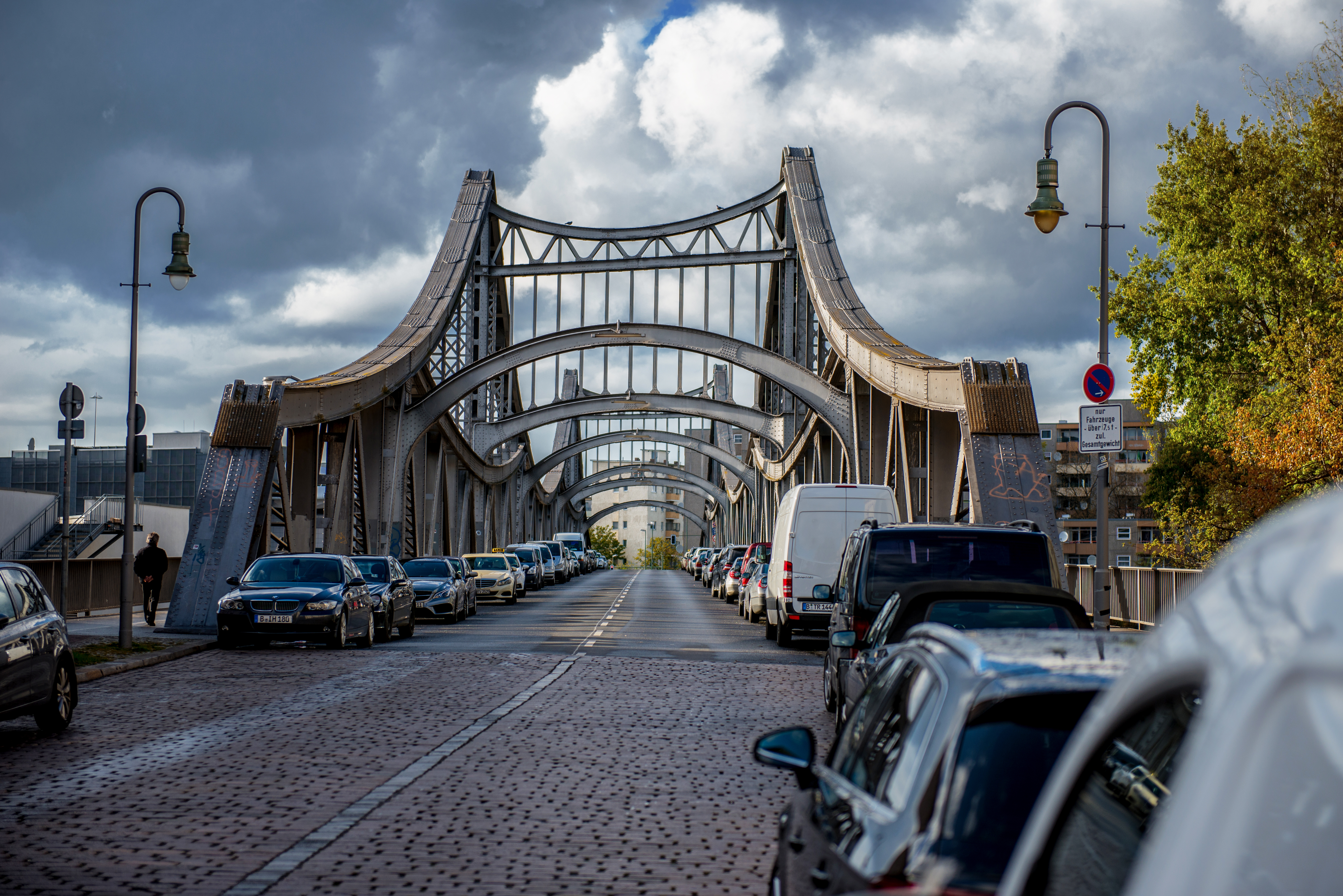 Świnoujście Bridge, Berlin